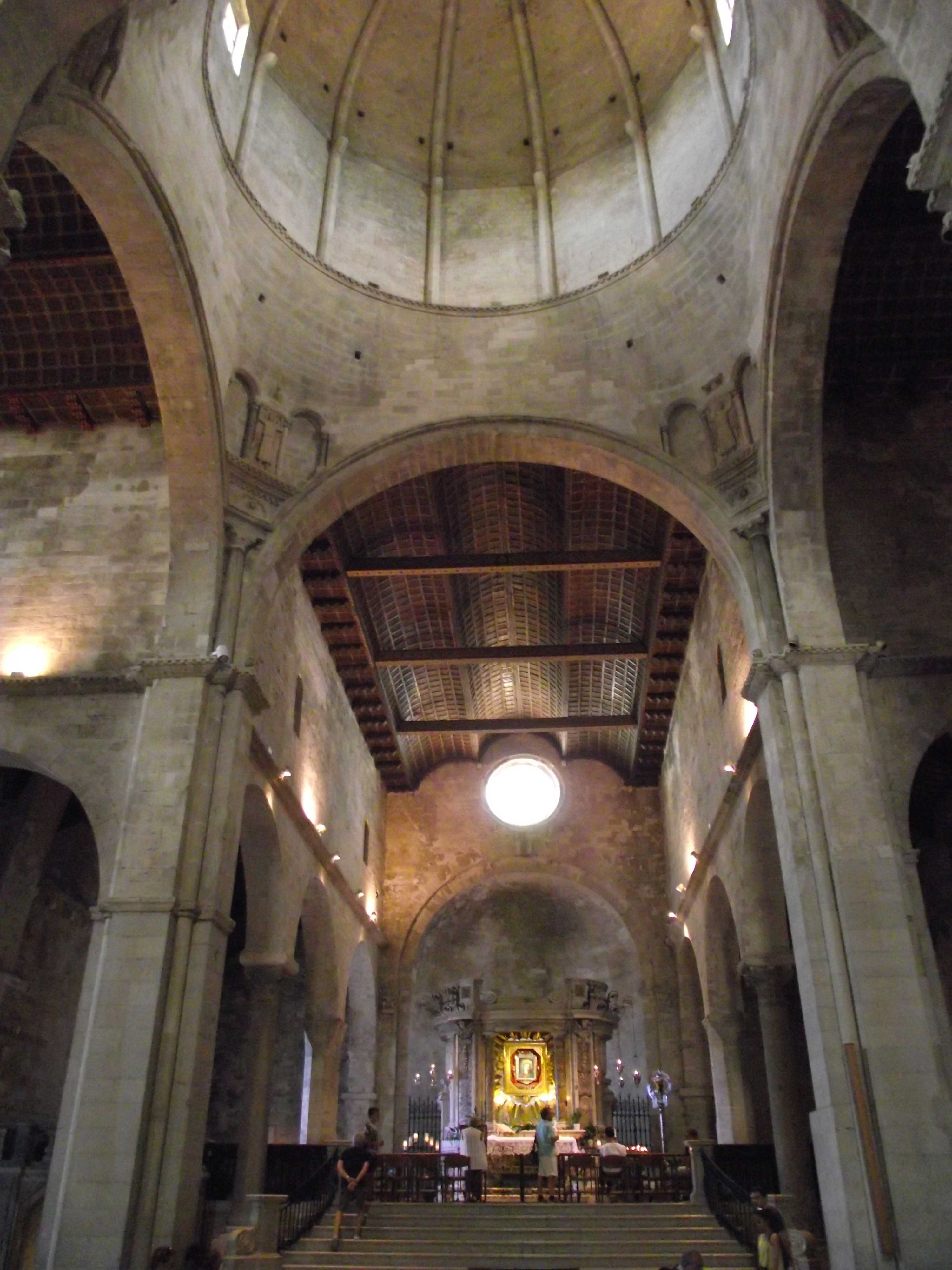 Ancona, Cathedral of St. Cyriacus, X-XII Century